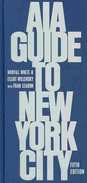 book cover